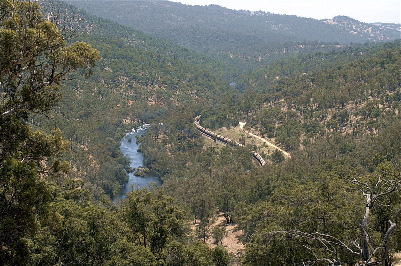 Grain train on the Eastern Railway, Western Australia.